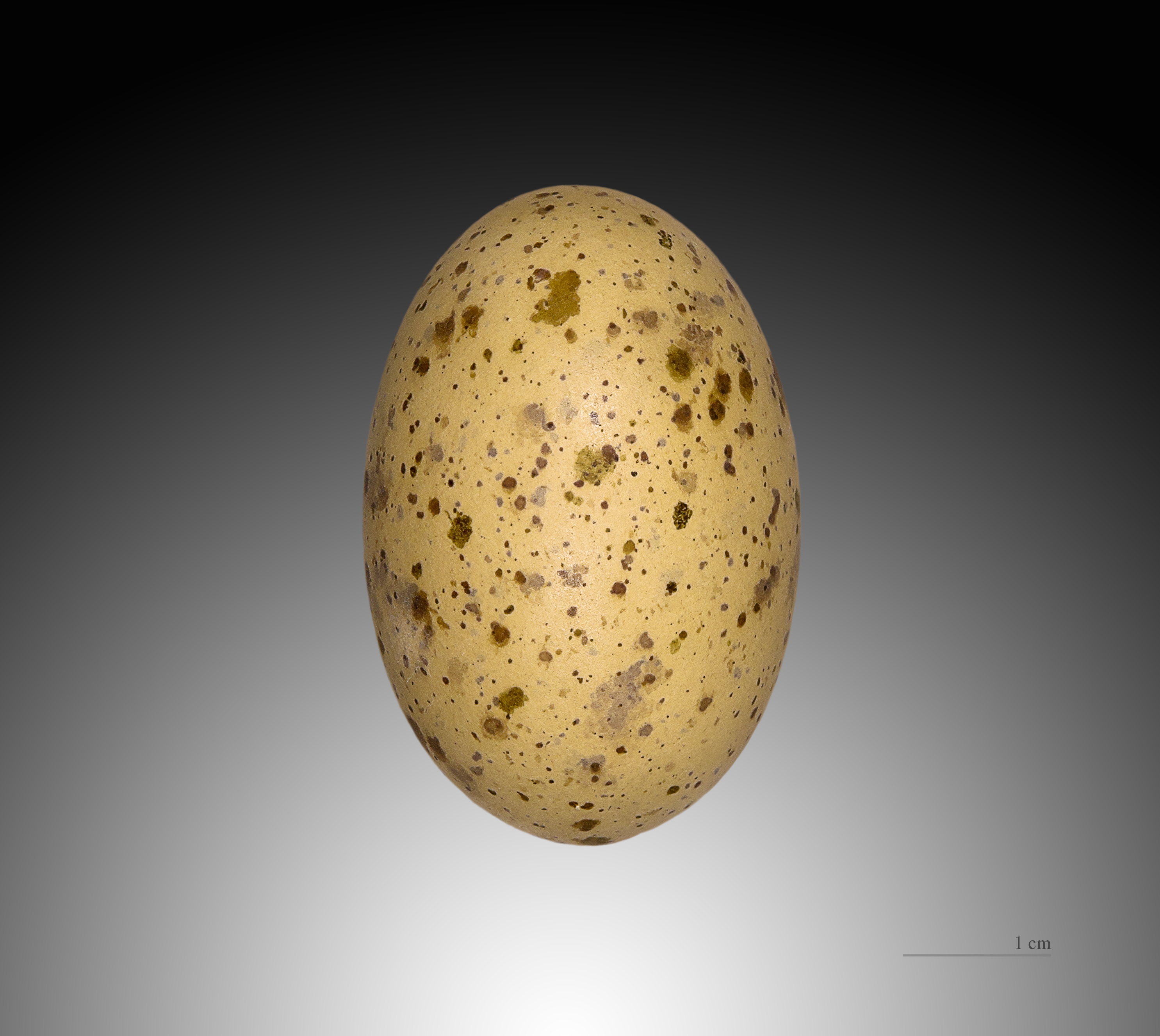 Egg of Spotted Sandgrouse. Collection of Jacques Perrin de Brichambaut Locality: Tozeur, Tunisia